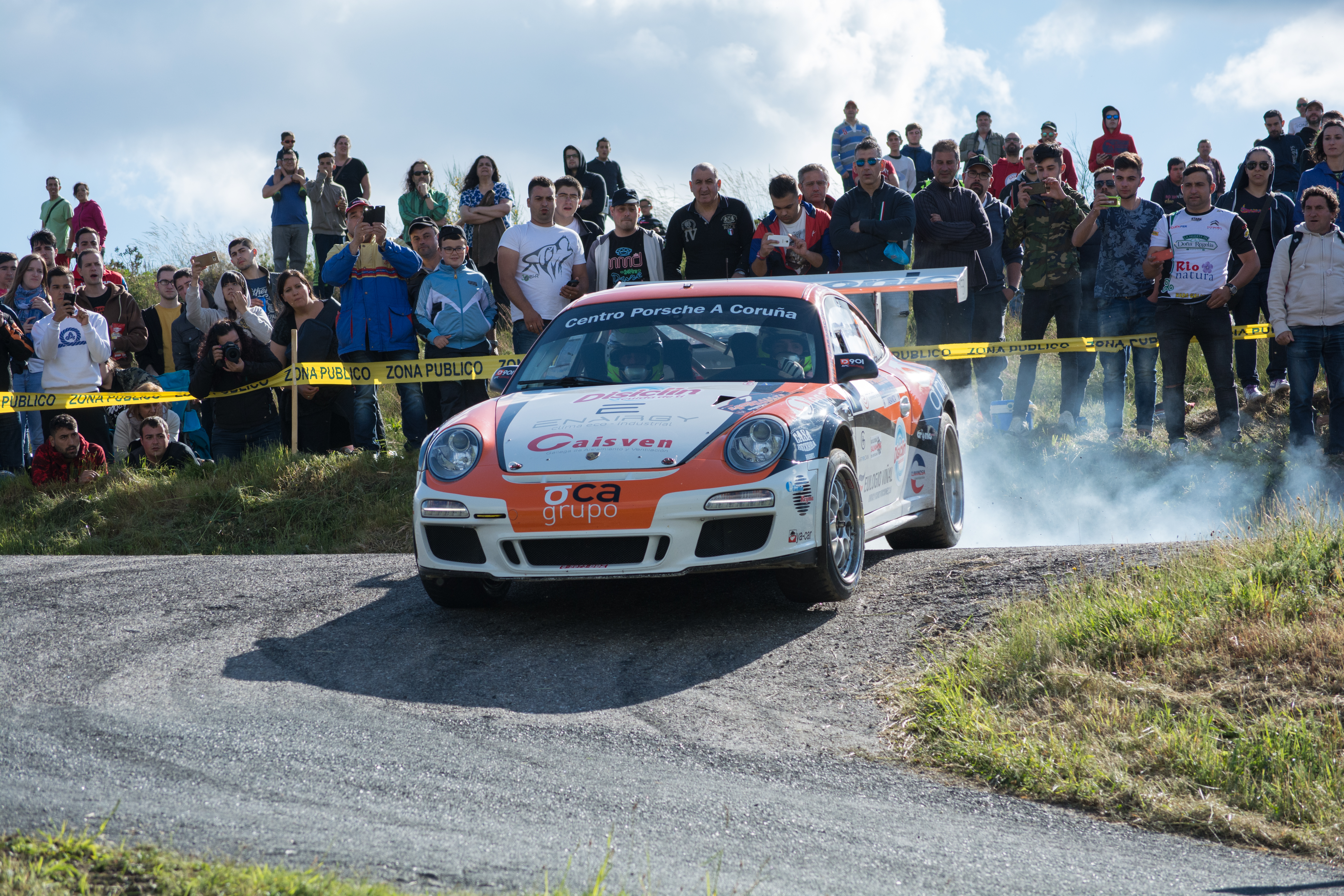 '49 TRally de Ourense ' in 2016, in the city of Ourense, scoring for the CERA.